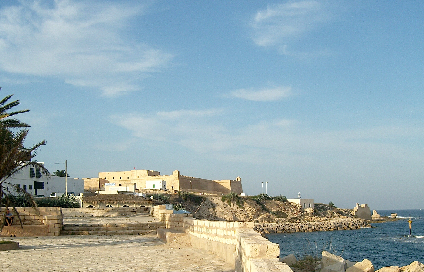 The Ottoman Fort of Mahdia